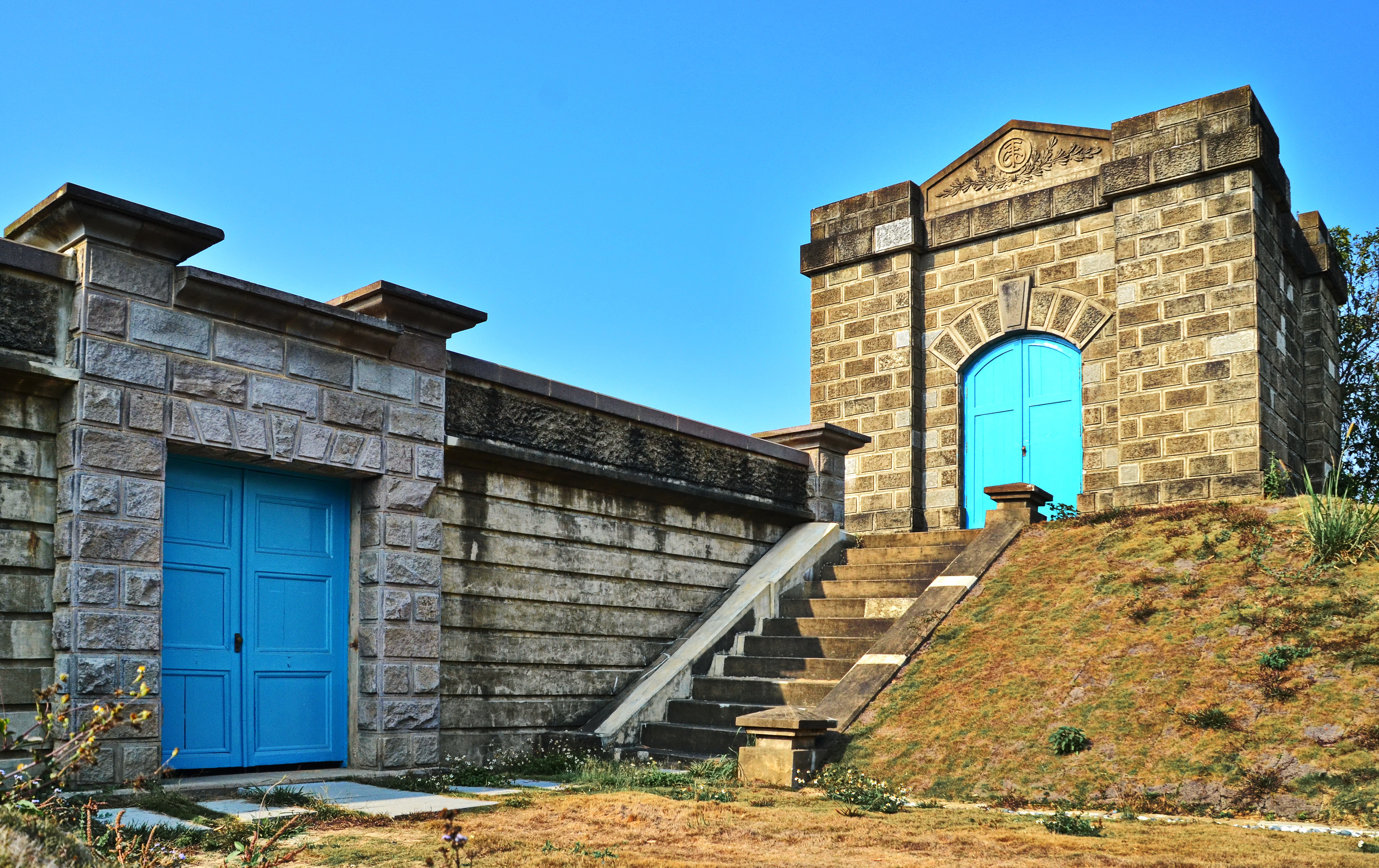 Shanshang Water Treatment Plant, Shanshang District, Tainan City, Taiwan.